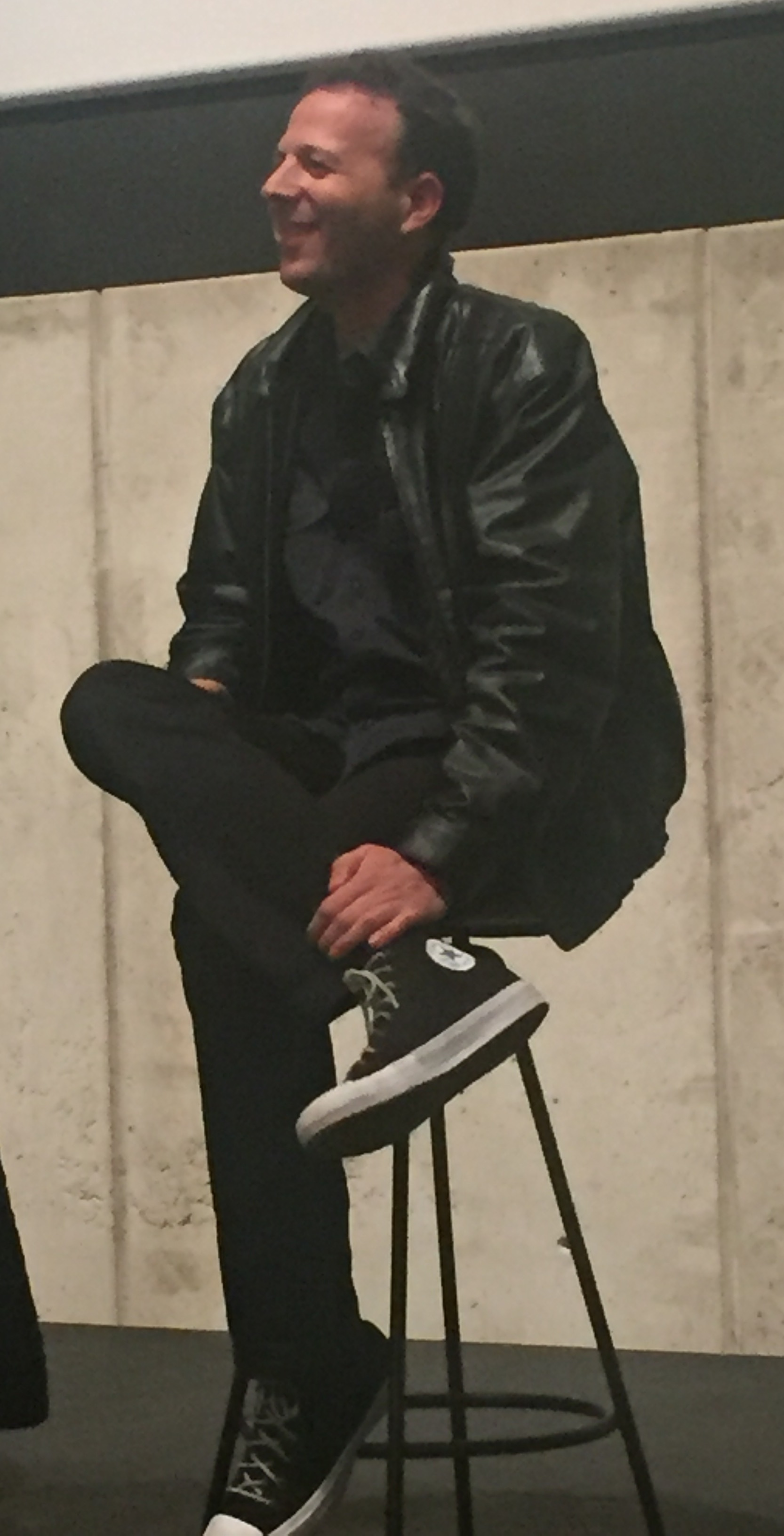 Mexican filmmaker Amat Escalante, during a presentation of his 2005 film "Sangre" at the Cine Tonalá in Tijuana, Mexico